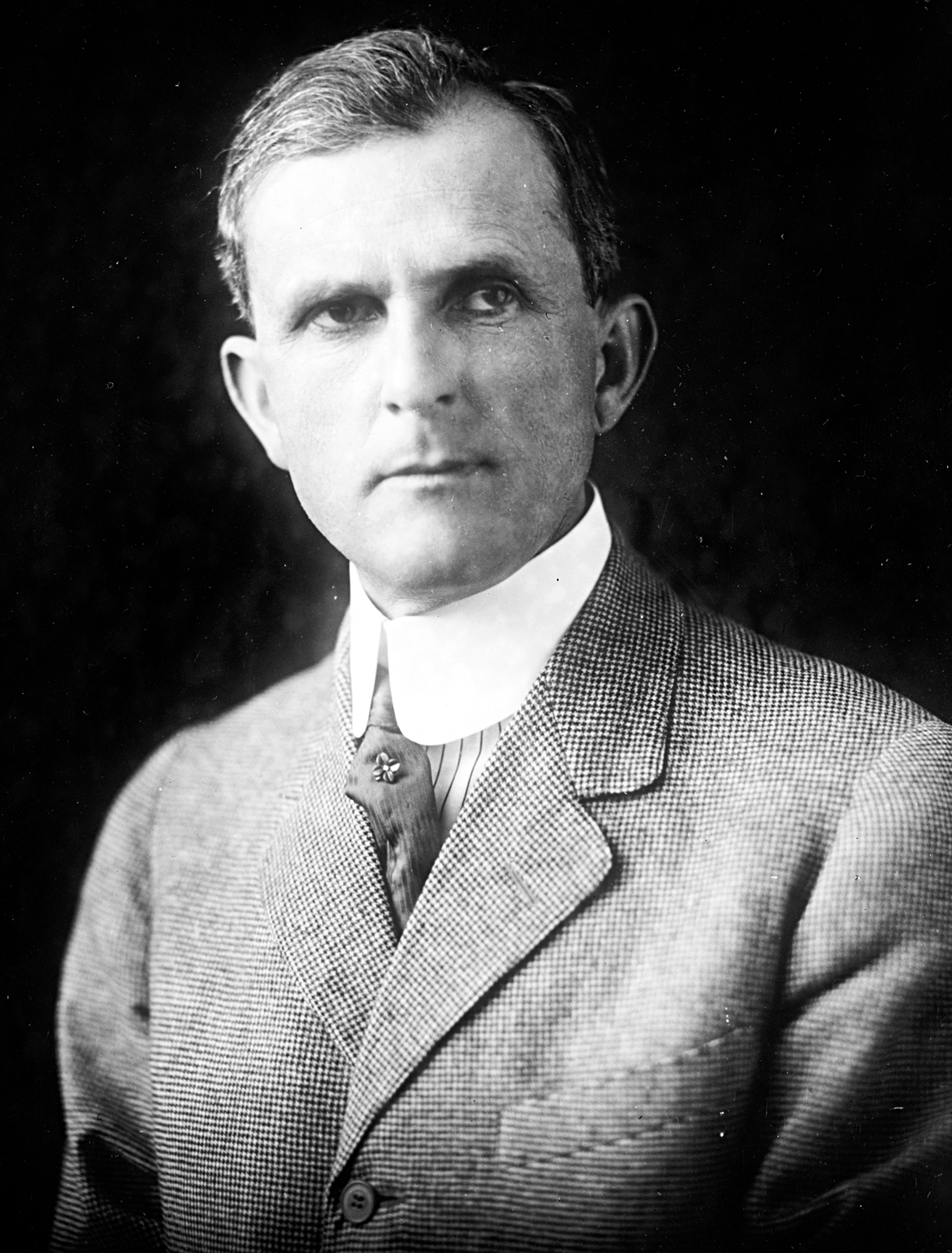 John A. Elston, US Representative from California